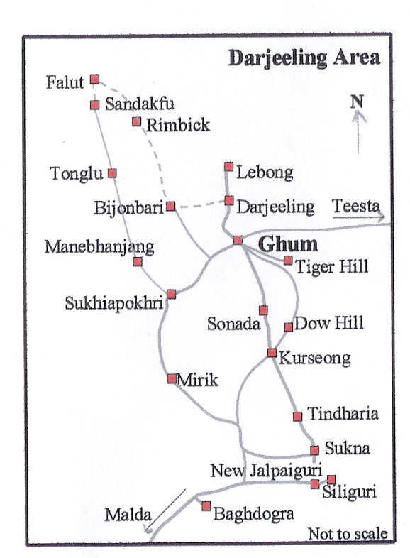 Own map